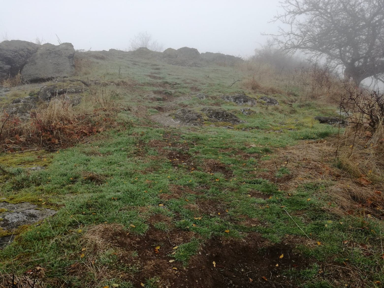 Way to Holý vrch u Hlinné